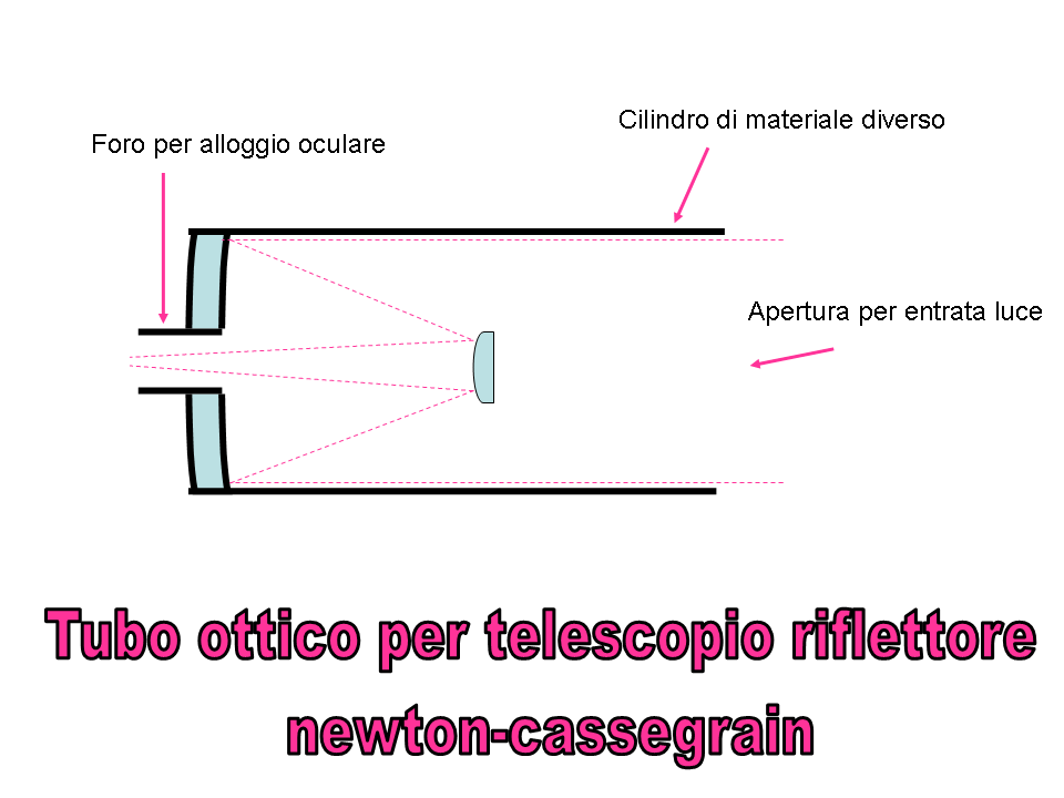 Optical tube of Cassegrain telescope